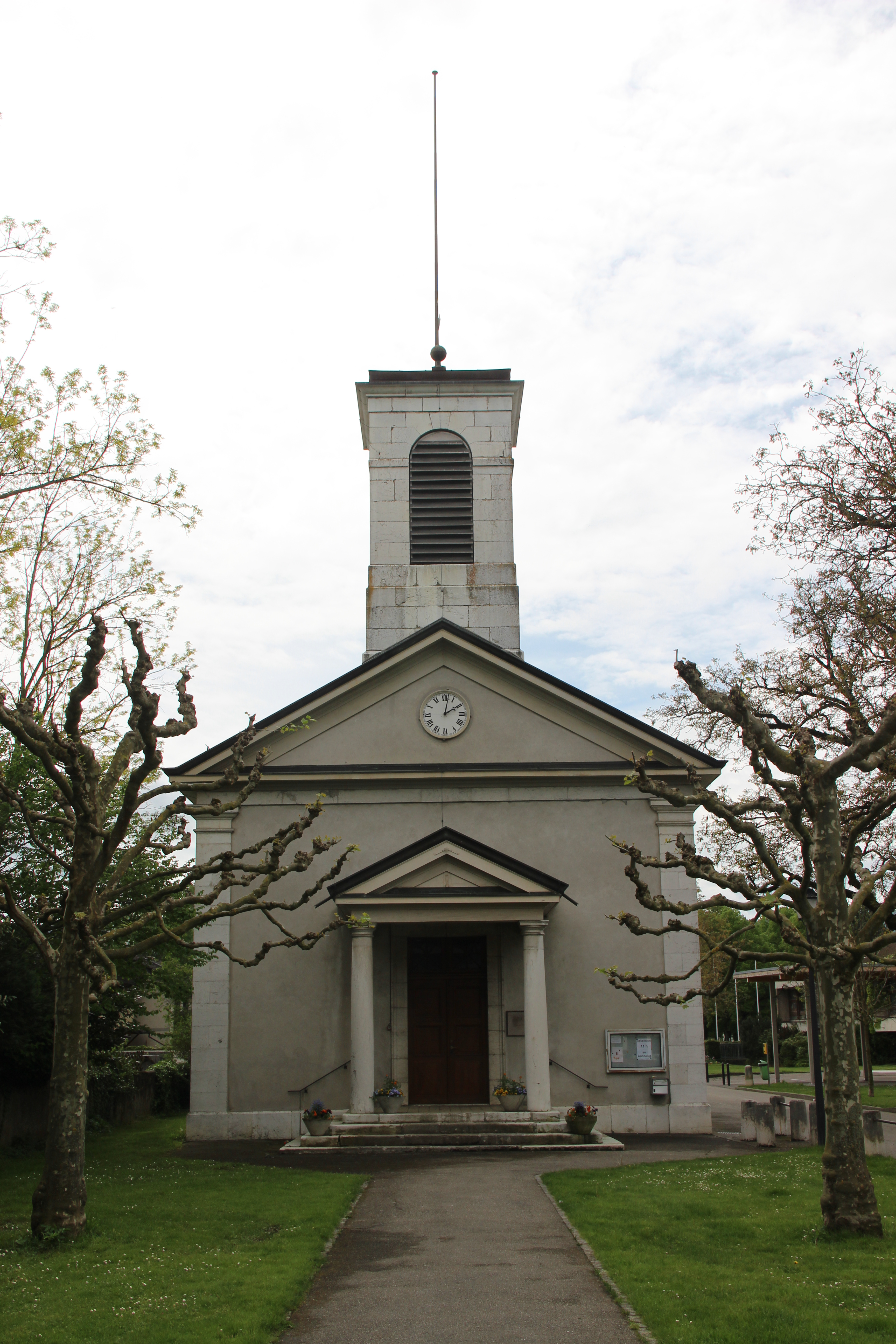 Church of Chancy